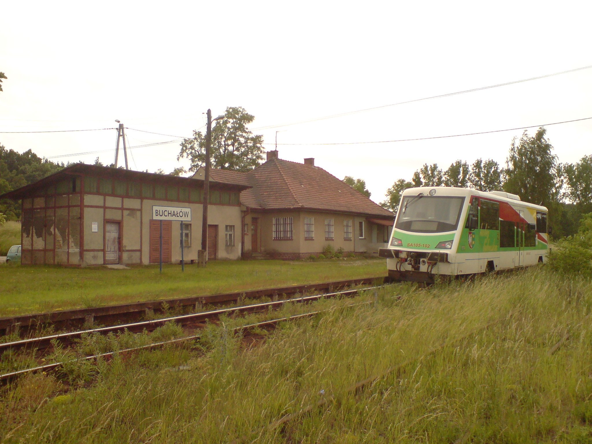 Railway station in the village of Buchałów, Poland